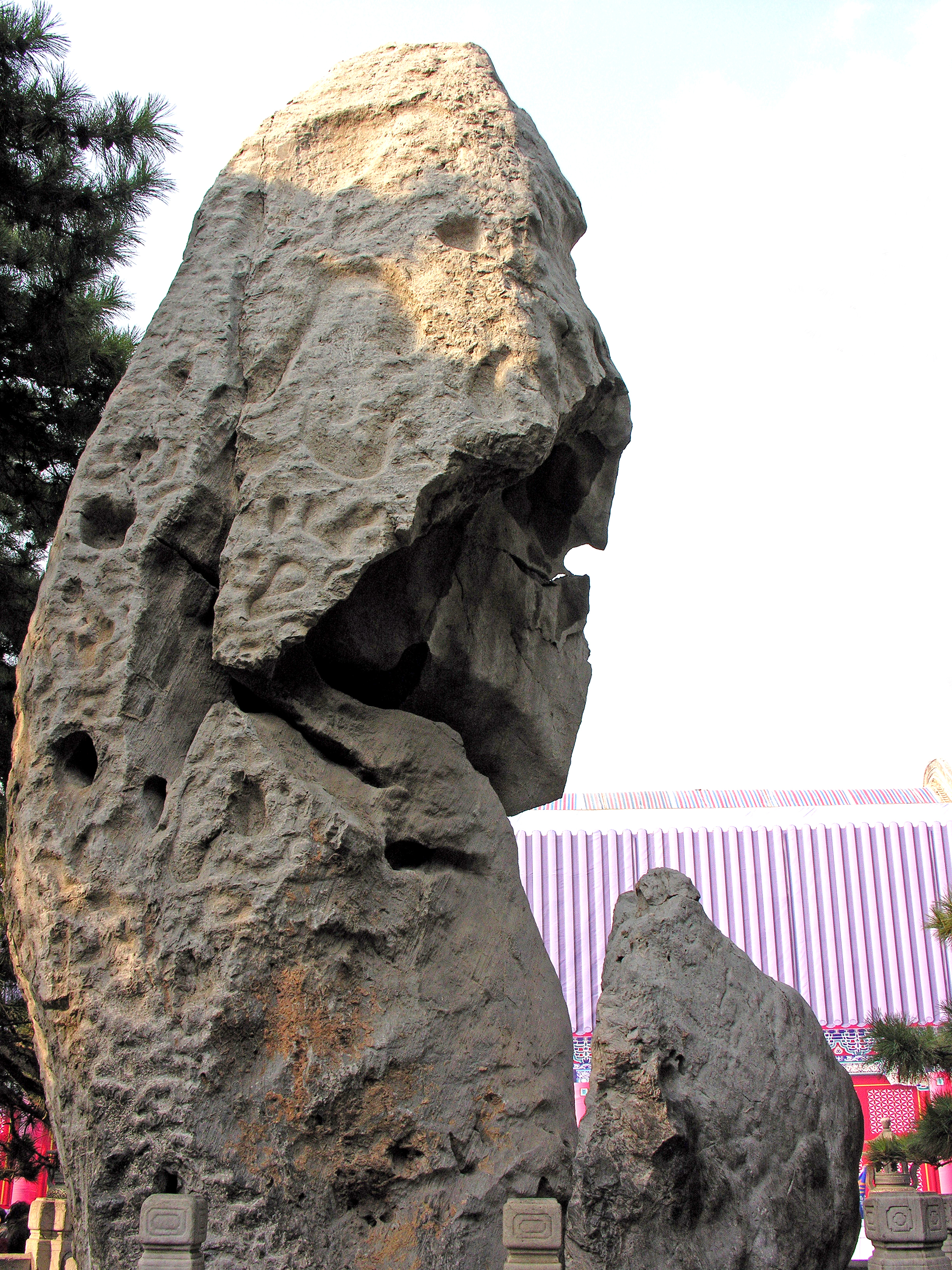 Stone of the God of Longevity This stone was bought from the Morgan Garden when the Summer Palace was being reconstructed in 1886. The stone is shaped like the God of Longevity, hence its name.